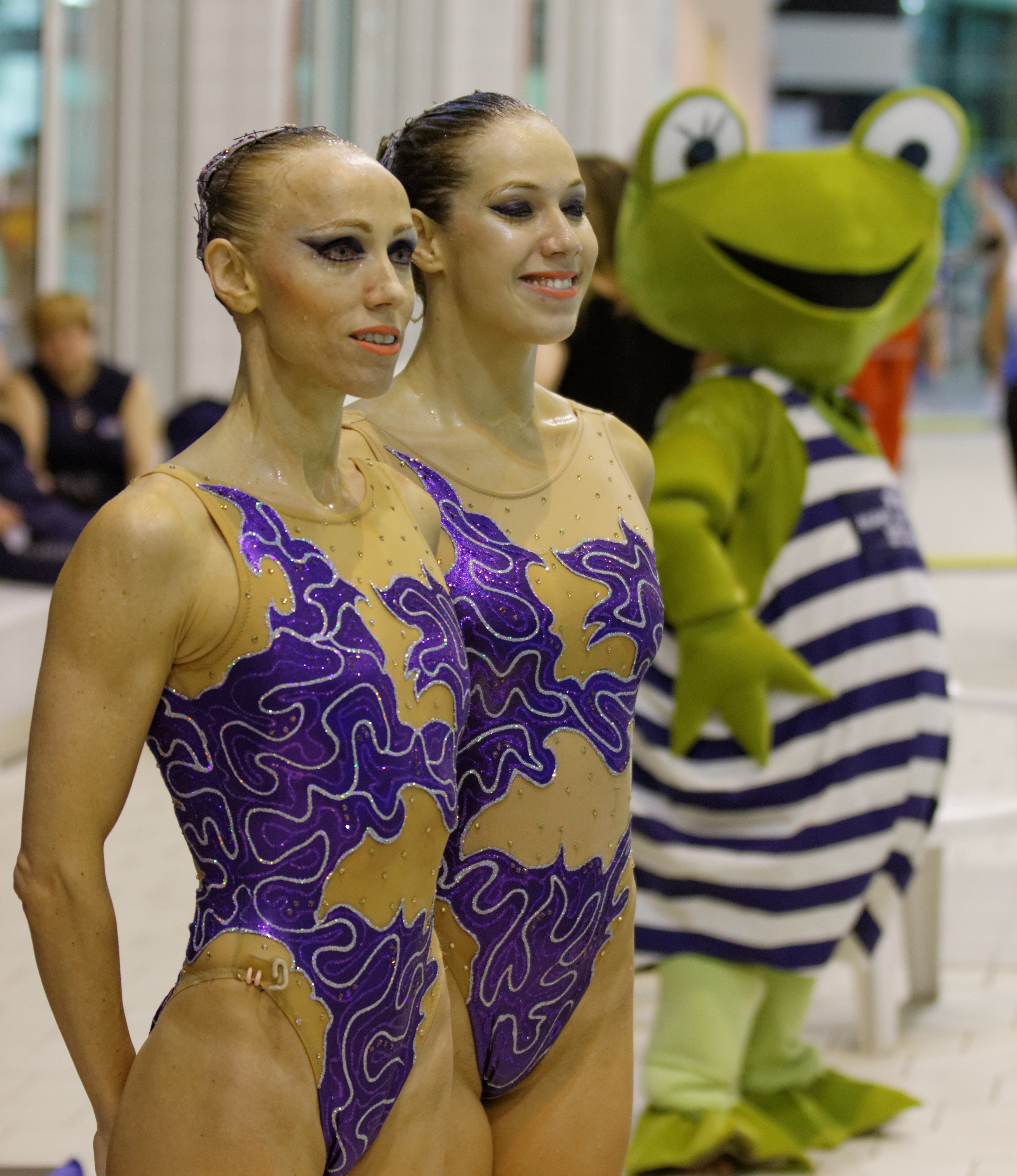 Sona Bernardova and Alzbeta Dufkovai, duet free routine (final), Open Make Up For Ever.